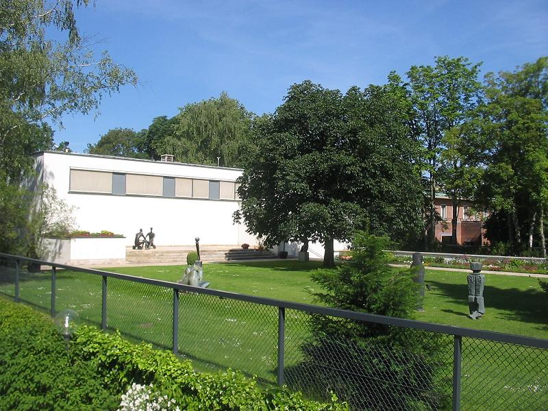 In the foreground: listed Villa Mendelsohn. Built in 1928/1930 by Erich Mendelsohn. Mendelsohn was living and working here from 1930 to 1933. In the background: listed mansion Lindemann, built in 1929/1931 by Bruno Paul in the Bauhaus-Style. Today Touro College Berlin. Am Rupenhorn (street) No. 6 (Mendelsohn), No. 5 (Touro College) on the high-bank above the Stößensee. The Stößensee is a lake in Berlin-Wilhelmstadt (Borough Spandau) and Berlin-Westend (Borough Charlottenburg-Wilmersdorf), Germany. The lake is a bay of the river Havel.